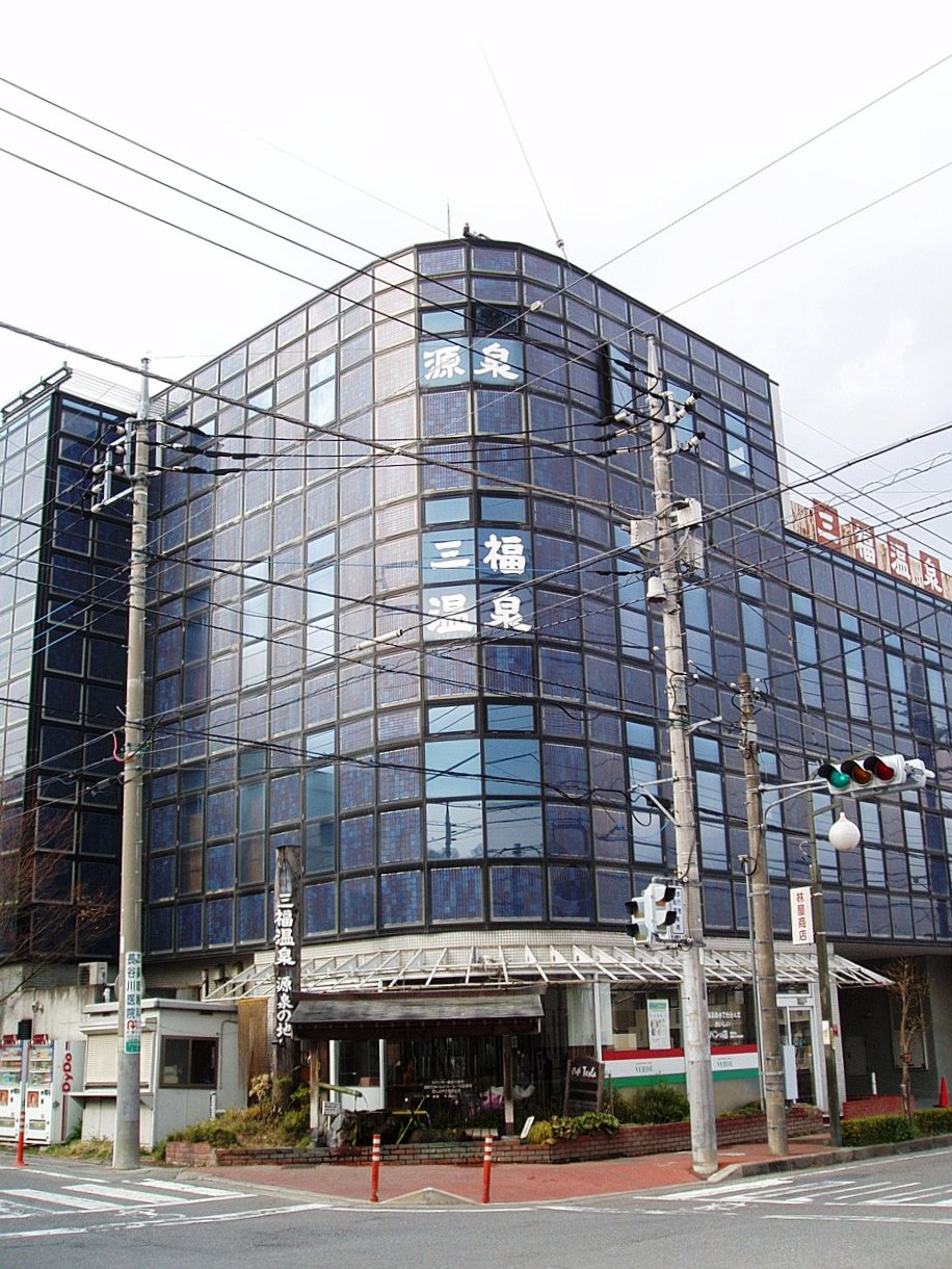 Sampuku Spa at Yachiyo Campus, the University of Creation; Art, Music & Social Work (Souzou Gakuen University), located in Takasaki, Gunma, Japan.